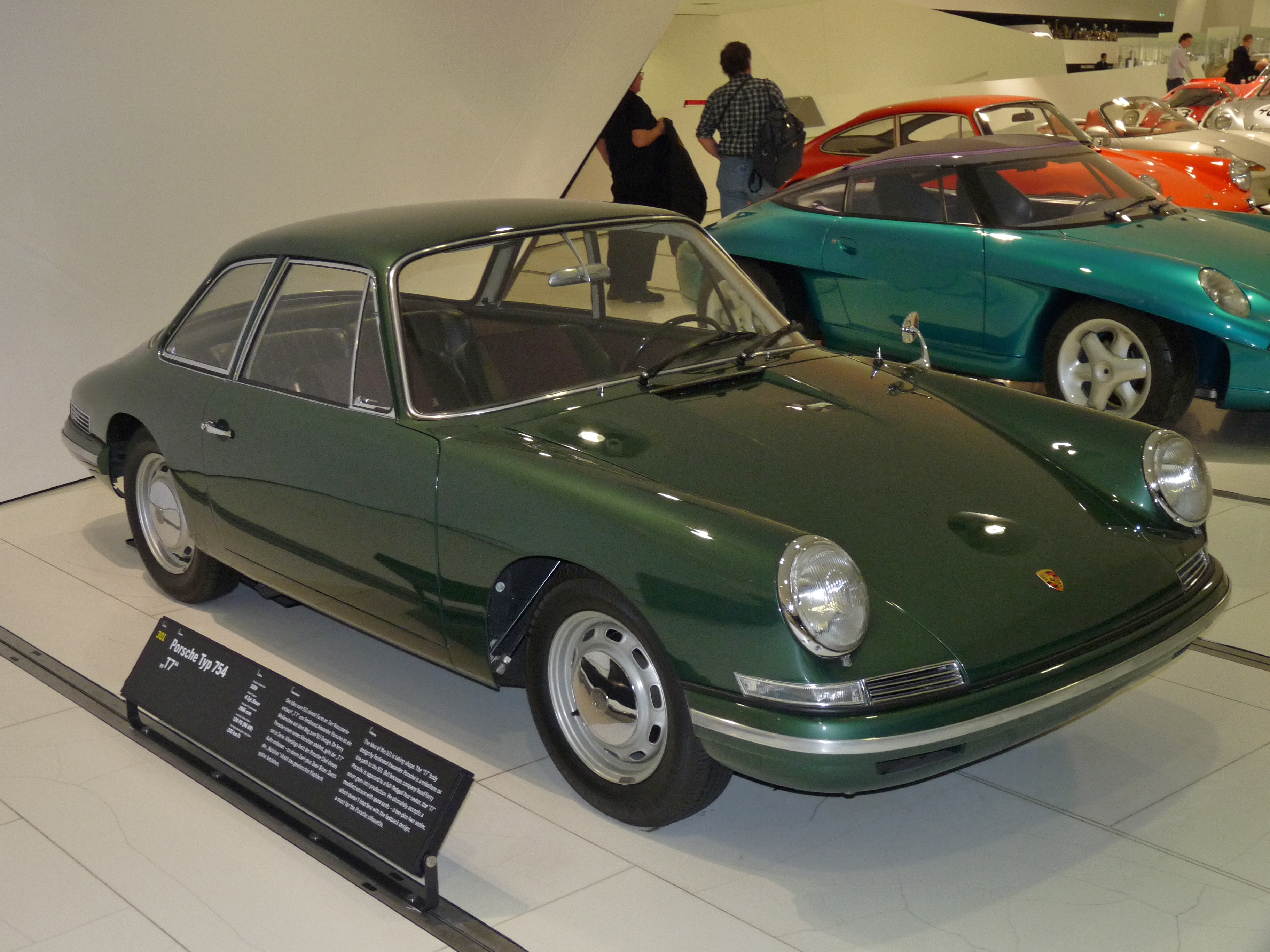 see filename for despcription - seen at Porsche Museum Native namePorsche-MuseumLocationStuttgartCoordinates48° 50′ 07″ N, 9° 09′ 06″ E Established1976 (old museum) 2009 (new museum)Web page control : Q328623 VIAF: 138511768 GND: 2087859-X SUDOC: 155641123 NKC: ko2015876799 institution QS:P195,Q328623